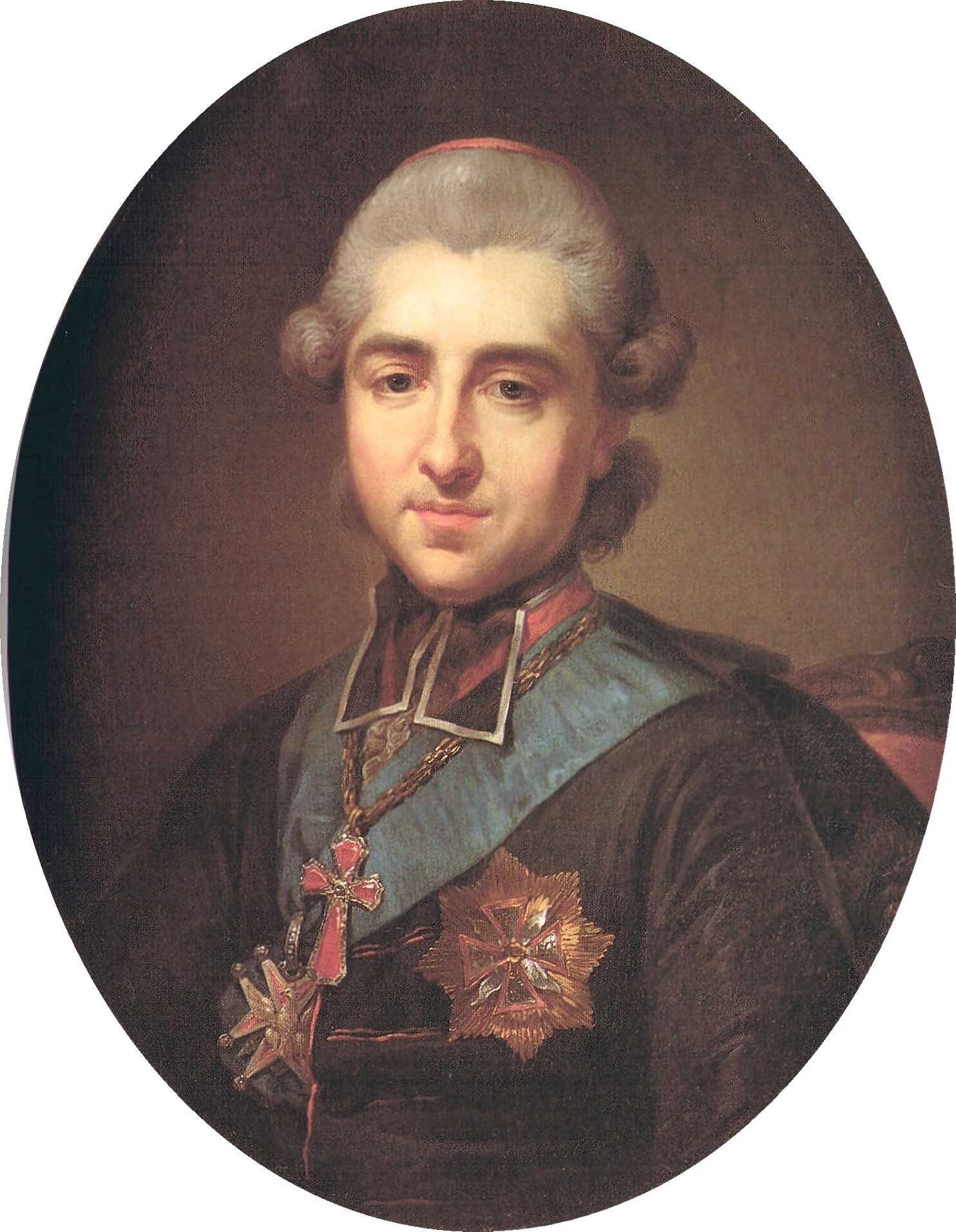 primate of Poland